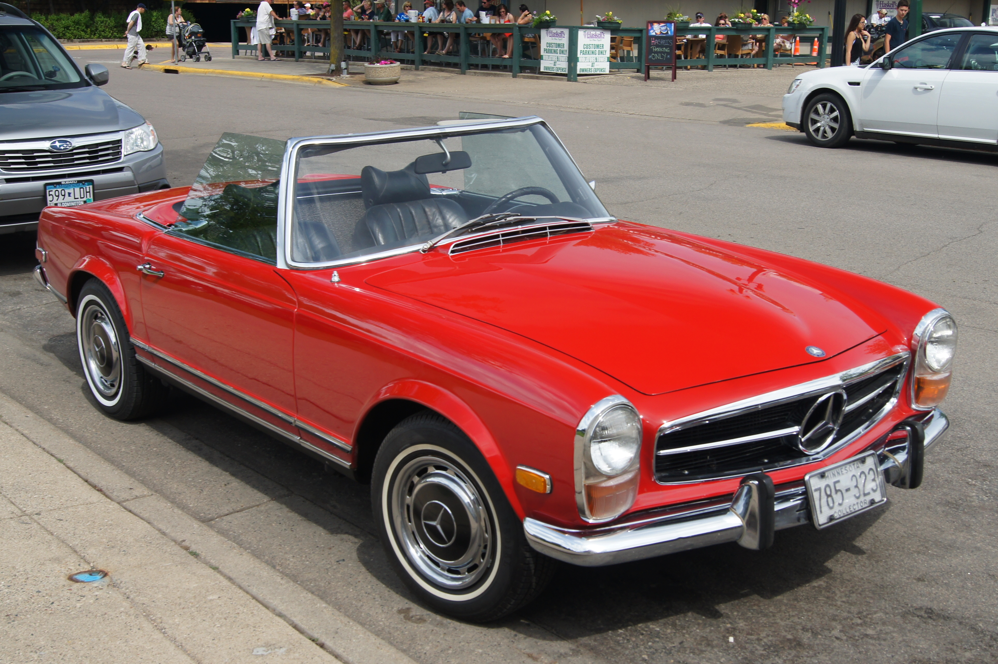 Vehicles I saw on my way home from the 10,000 Lakes Concours d'Elegance. Click here for more car pictures at my Flickr site.